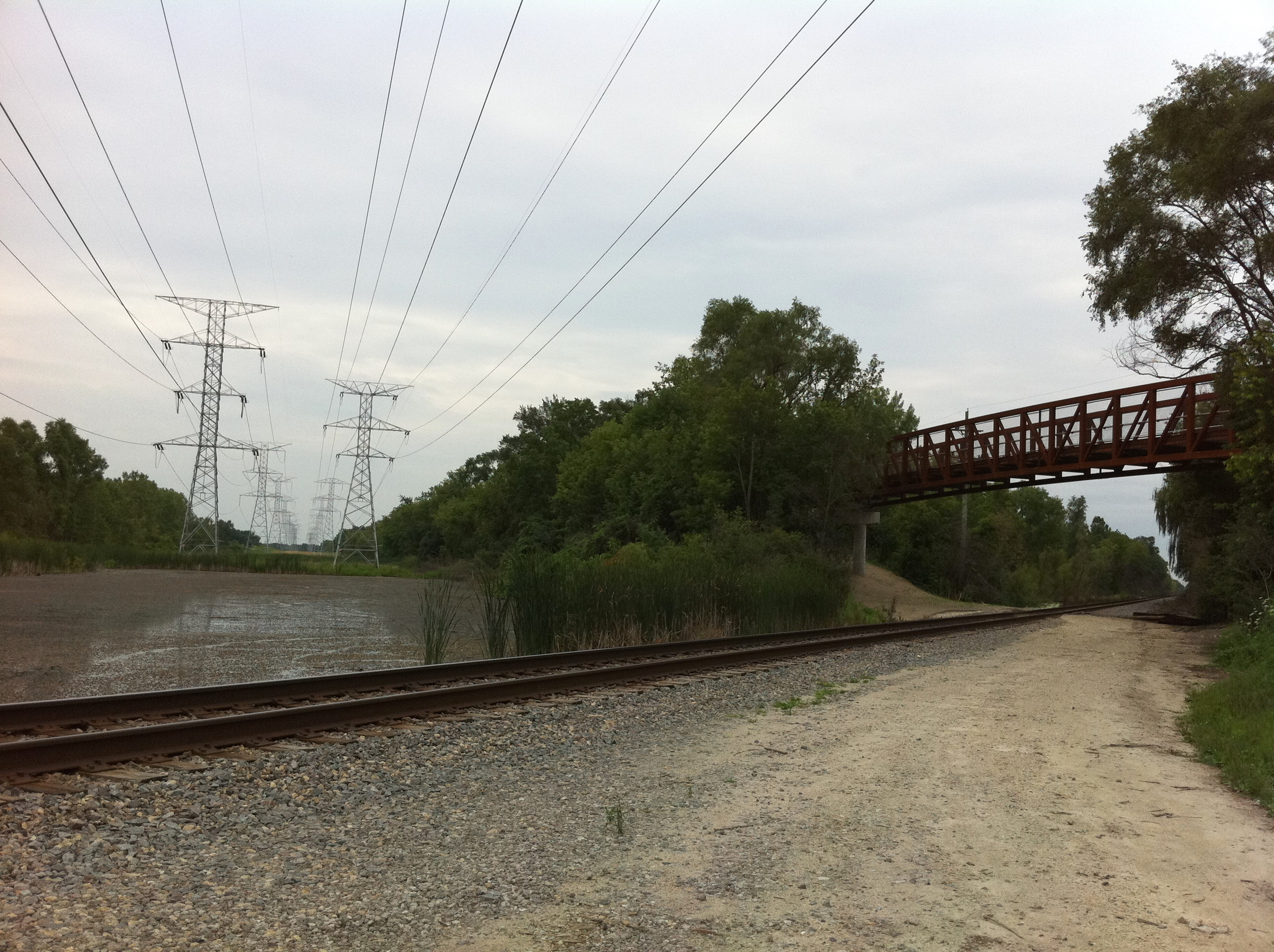 Pedestrian truss bridge for the Illinois Prairie Path over the Elgin, Joliet and Eastern Railroad in Wayne, Illinois. 345 and 138 kV power line towers.